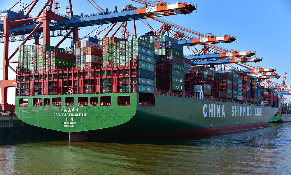 Container ship Pacific Ocean, Eurogate Container Terminal Hamburg